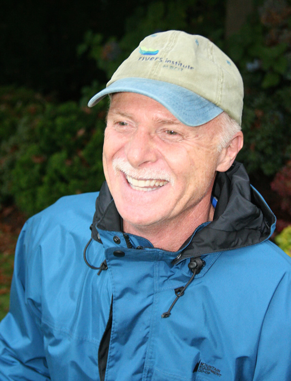 Image of Mark Angelo taken in Burnaby BC in August 2010.